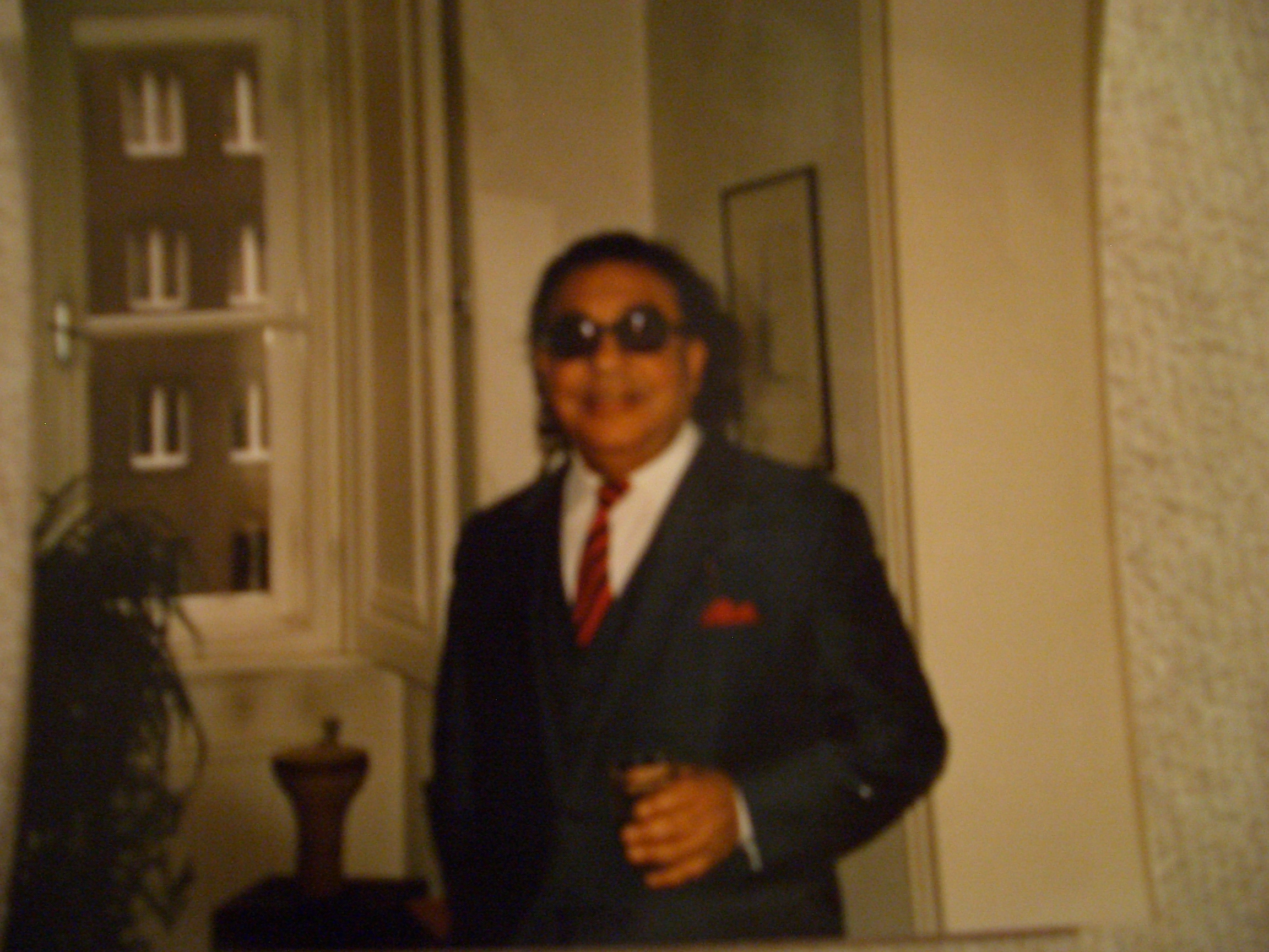 Portrait Johann "Mongo" Stojka